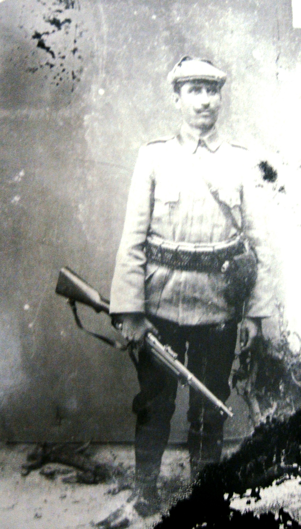 Vasil Chakalarov, voivode from Kostur, photographed in the studio of the brothers Manaki in Bitola 1908 (Damaged lass plate) This media file is produced by Wikipedian in Residence in Category:Wikipedian in Residence at DARM in 2016.